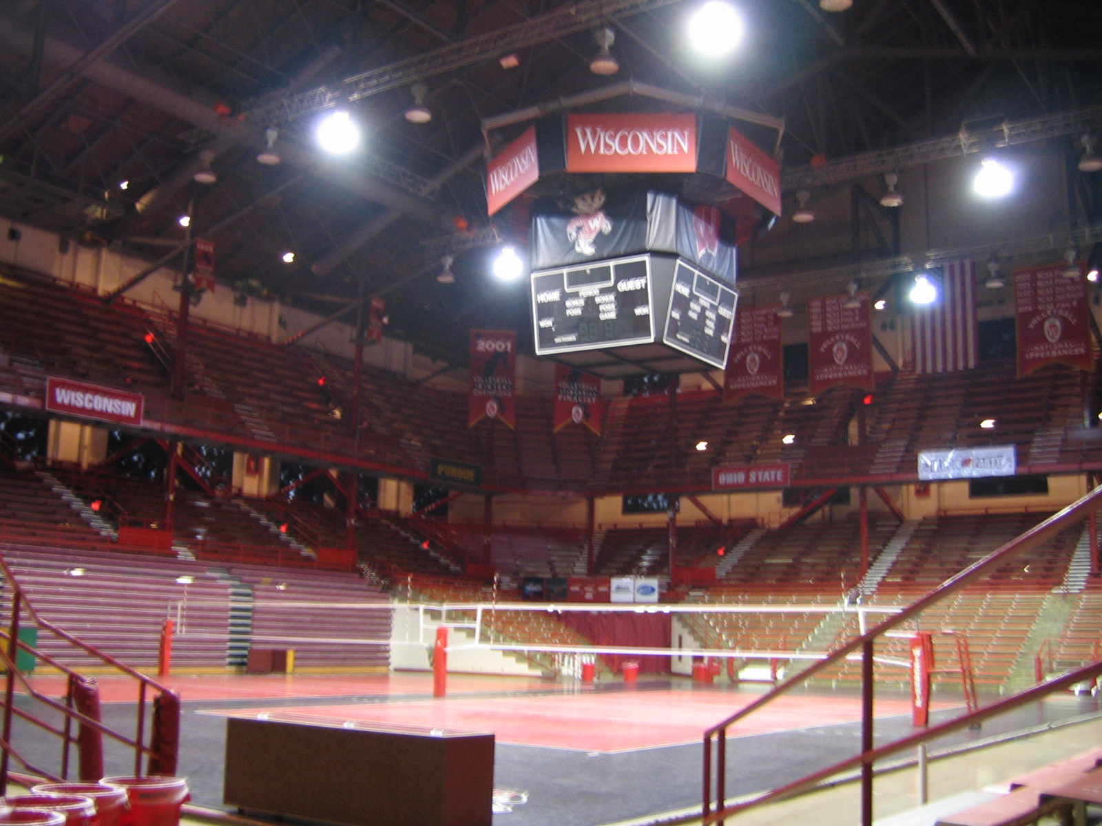 Football & Basketball Facilities U Wisconsin Gym